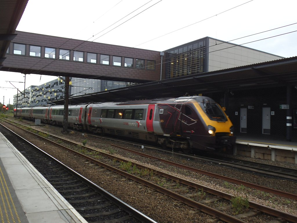 Wakefield Westgate station with Voyager